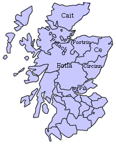 This shows the approximate locations of the Pictish kingdoms, as described in Wikipedia, with Fidach included.